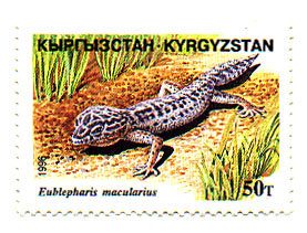 Stamp of Kyrgyzstan